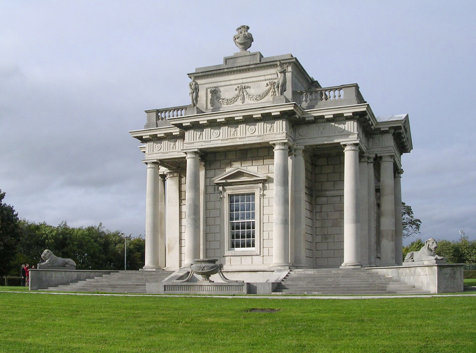 Marino Casino, Dublin, Republic of Ireland.